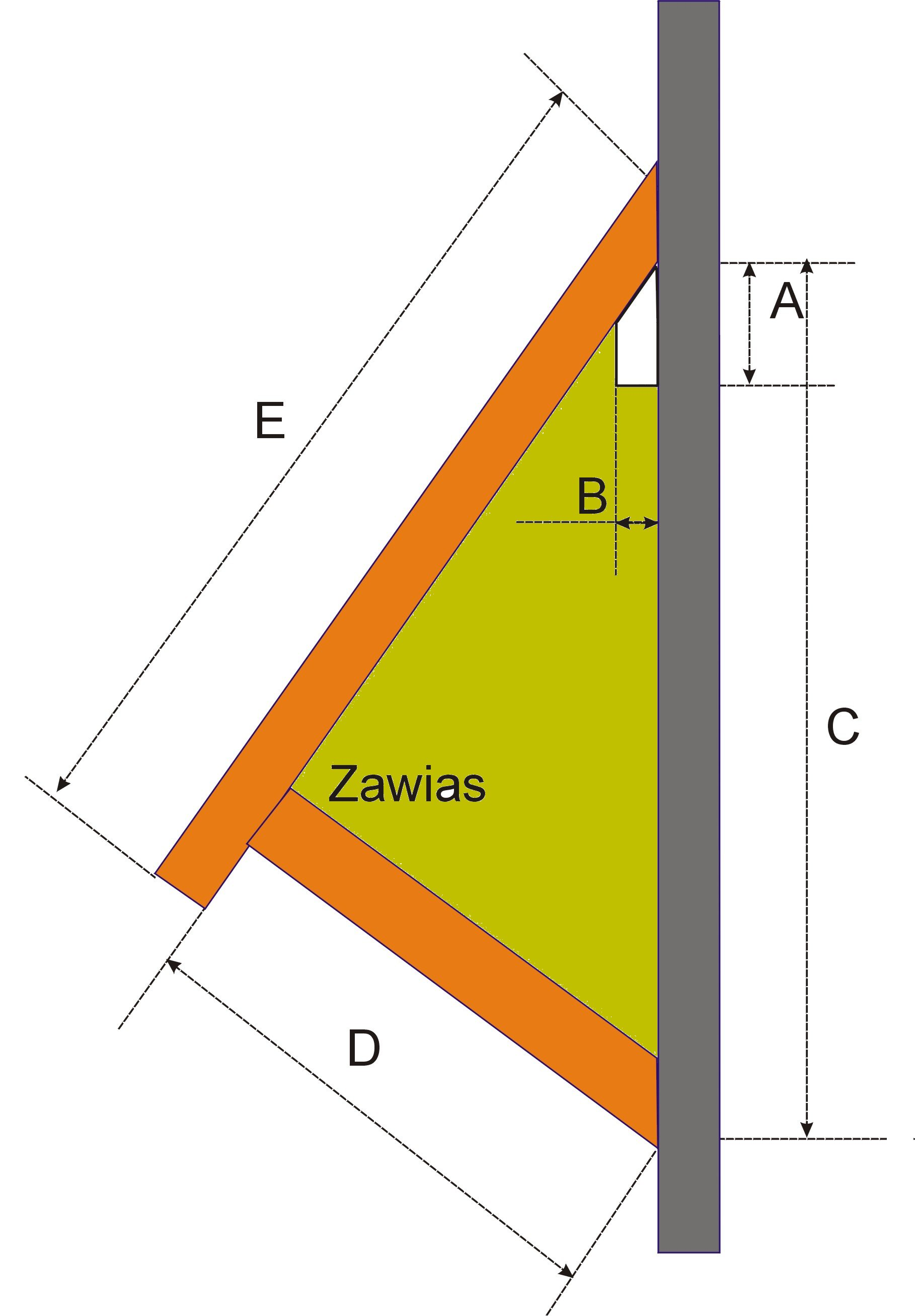 Nestbox for Treecreepers